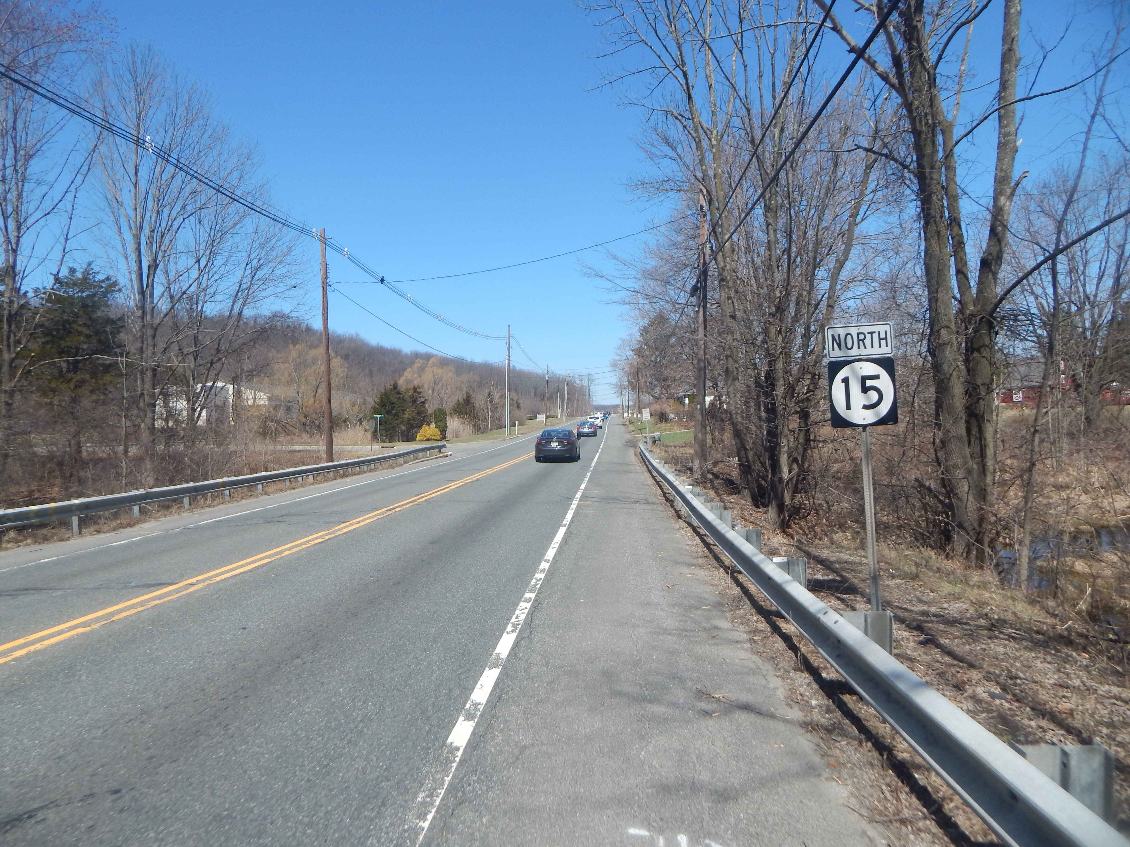 Route 15 northbound from Route 181 south of Woodruffs Gap, New Jersey.